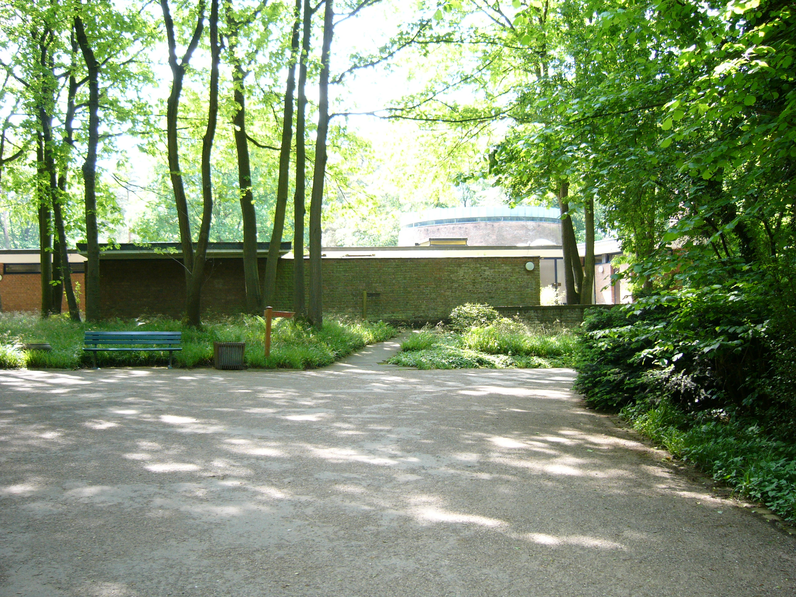 Higher chapel of Gerresheim Cemetery